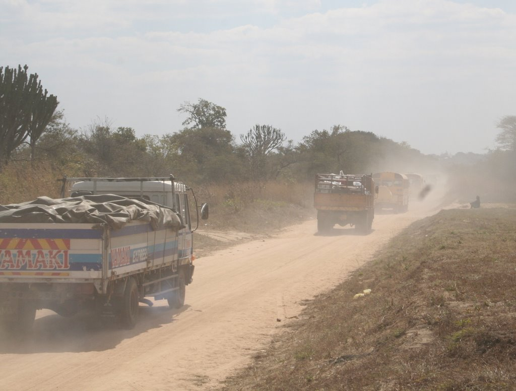 gravel raod traffic in southern province, Zambia